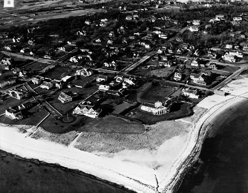 Aerial view of Kennedy Compound in Hyannis Port, Massachusetts.